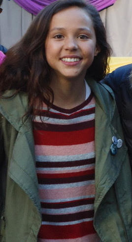 Scott McAboy and Cast of Escape From Mr. Lemoncello's Library